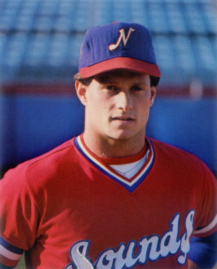 Outfielder Paul Householder of the 1979 Nashville Sounds Minor League Baseball team of the Southern League